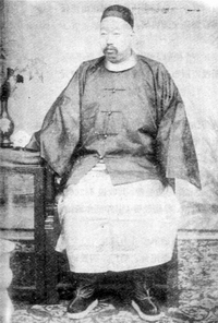 Photograph of the Chinese statesman Zhang Peilun (1848-1903)